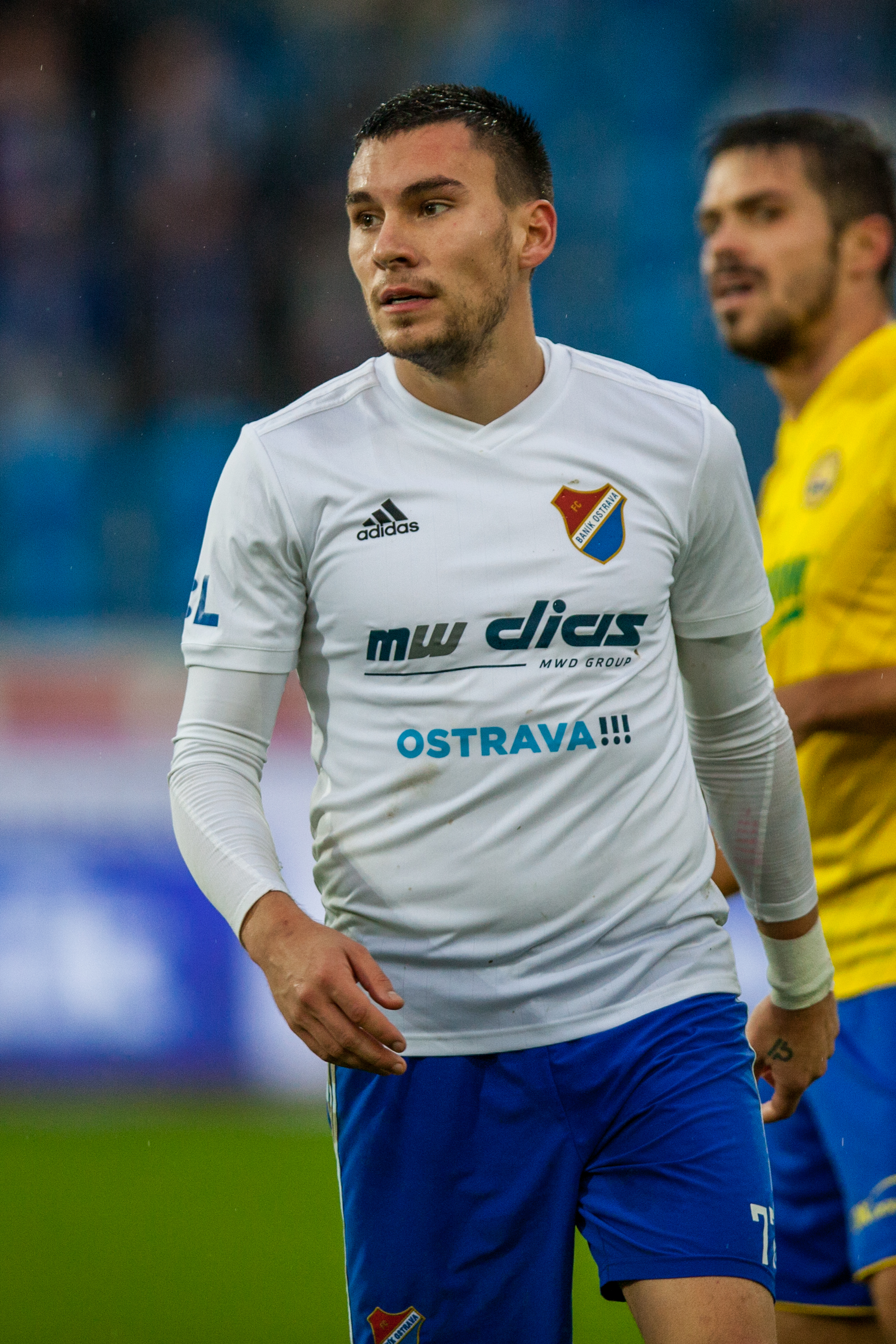 Rudolf Reiter in a Czech First League (Fortuna:Liga) match between FC Baník Ostrava and FC Fastav Zlín (4:0), 5 October 2019, Městský stadion Ostrava, Ostrava-Vítkovice, Ostrava-City District, Moravian-Silesian Region, Czechia Personality rights warningAlthough this work is freely licensed or in the public domain, the person(s) shown may have rights that legally restrict certain re-uses unless those depicted consent to such uses. In these cases, a model release or other evidence of consent could protect you from infringement claims.